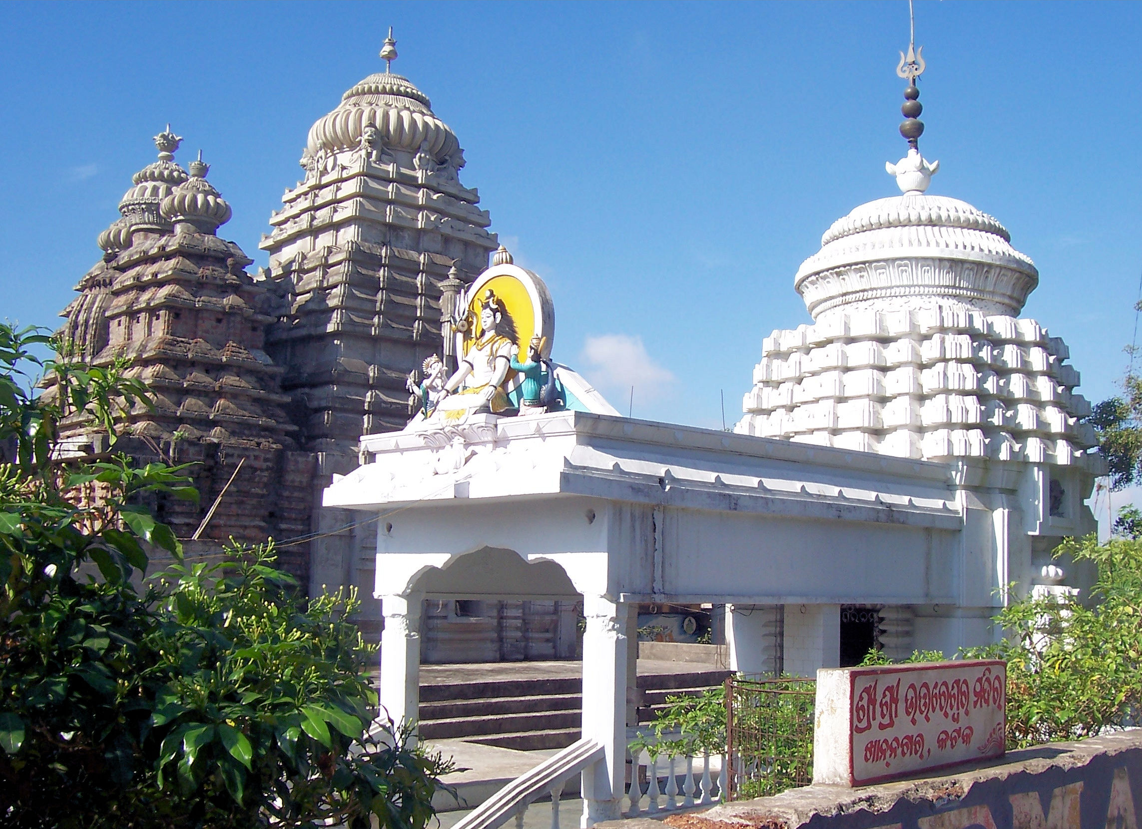 Uttareswar Temple, Cuttack